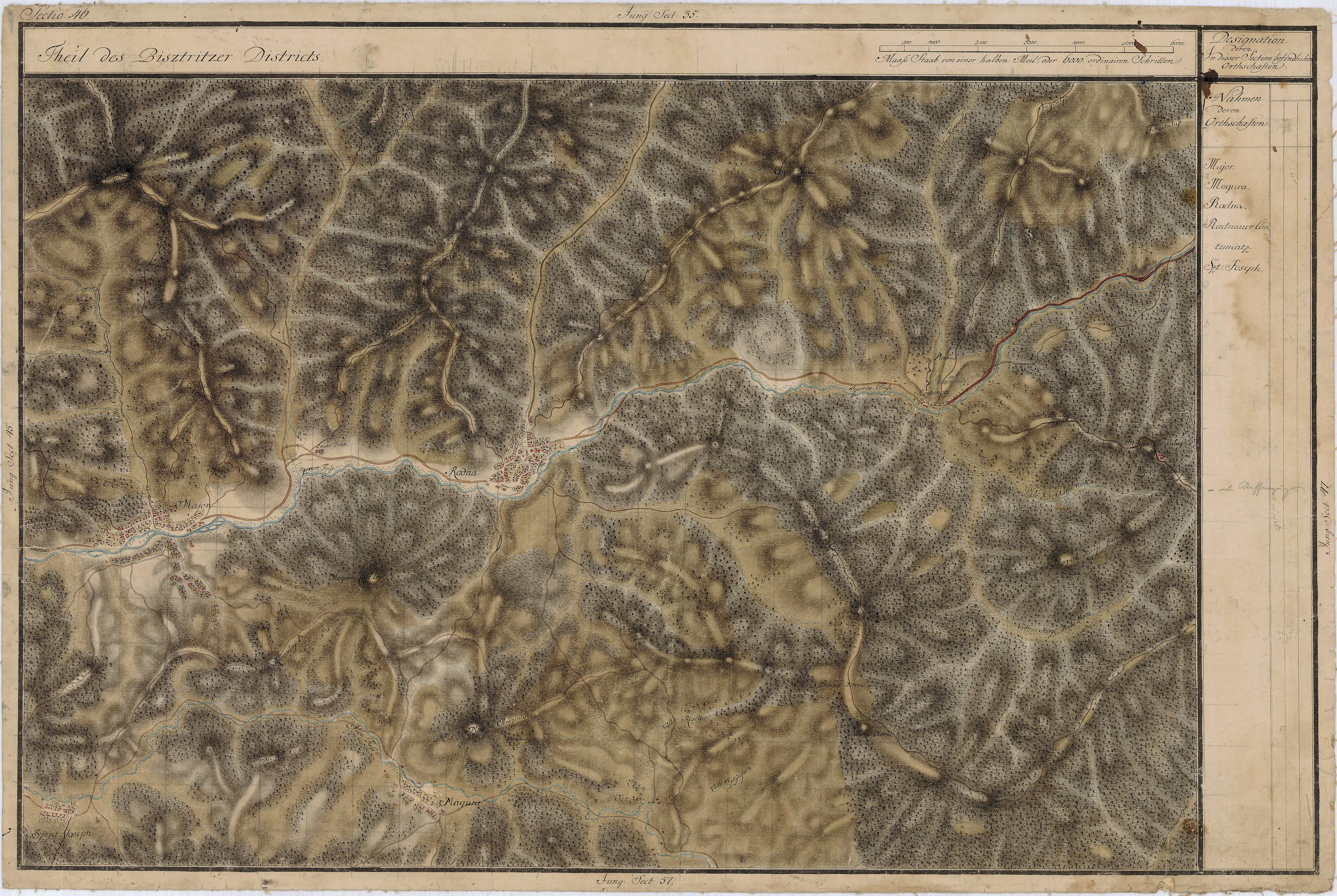 Grand Duchy of Transylvania, 1769-1773. Josephinische Landaufnahme pg.046